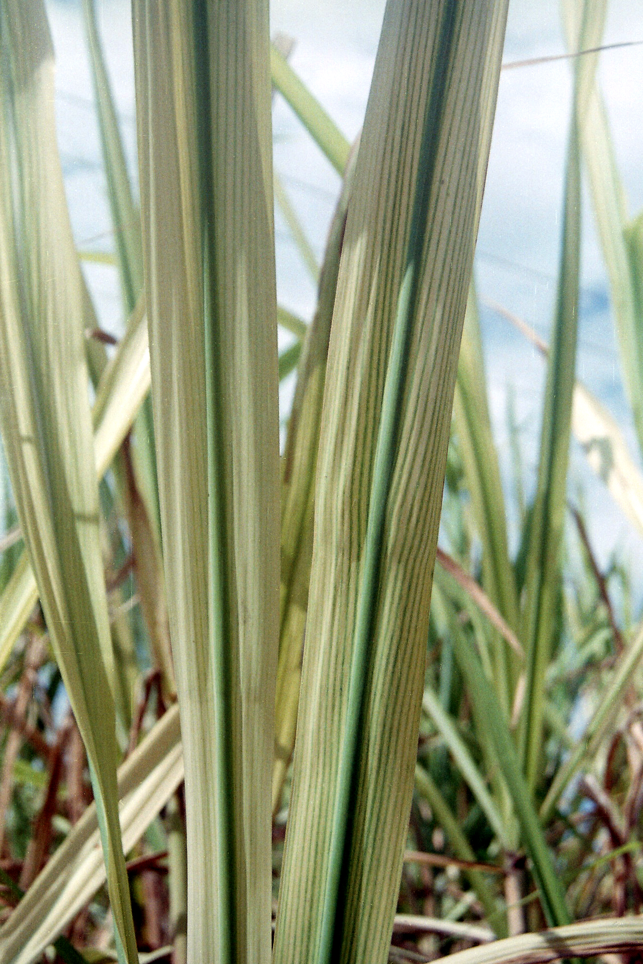 Sugarcane Iron Deficiency